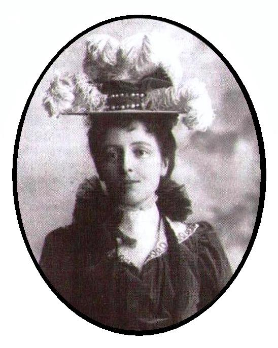 Cropped version of File:Lucy_Maud_Montgomery.JPG